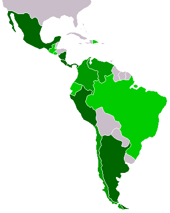 Latin American Idol 3 map of contestants